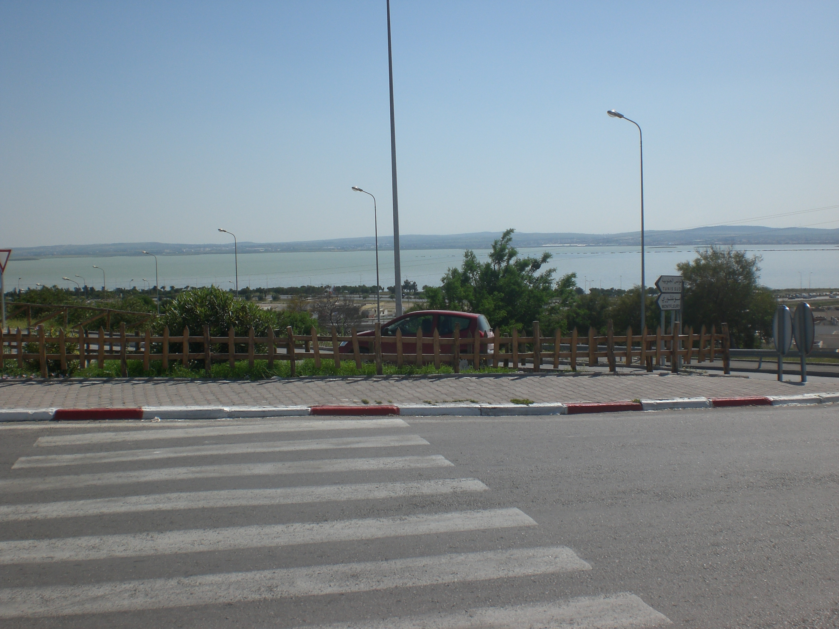 The Lake of Sijoumi-Tunis